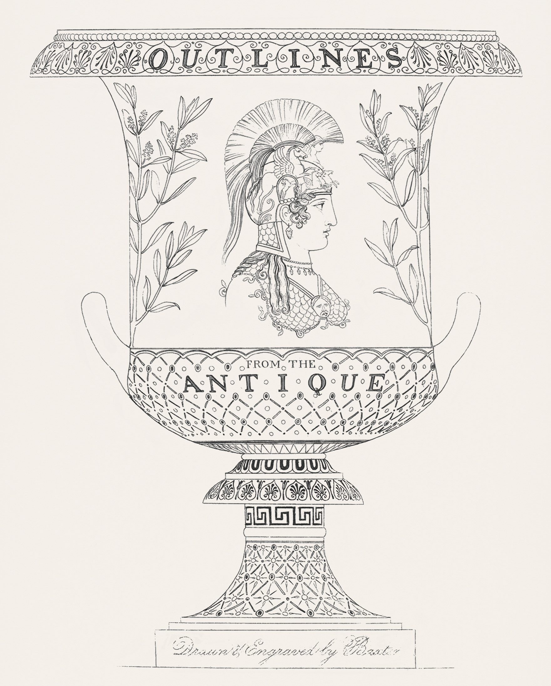 Outlines from the antique from An illustration of the Egyptian, Grecian and Roman costumes by Thomas Baxter (1782-1821).Digitally enhanced by rawpixel.